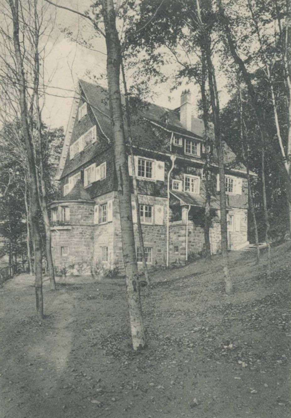 Old Postcard, Odenwaldschule, ca. 1920. Collection Markus Wolter